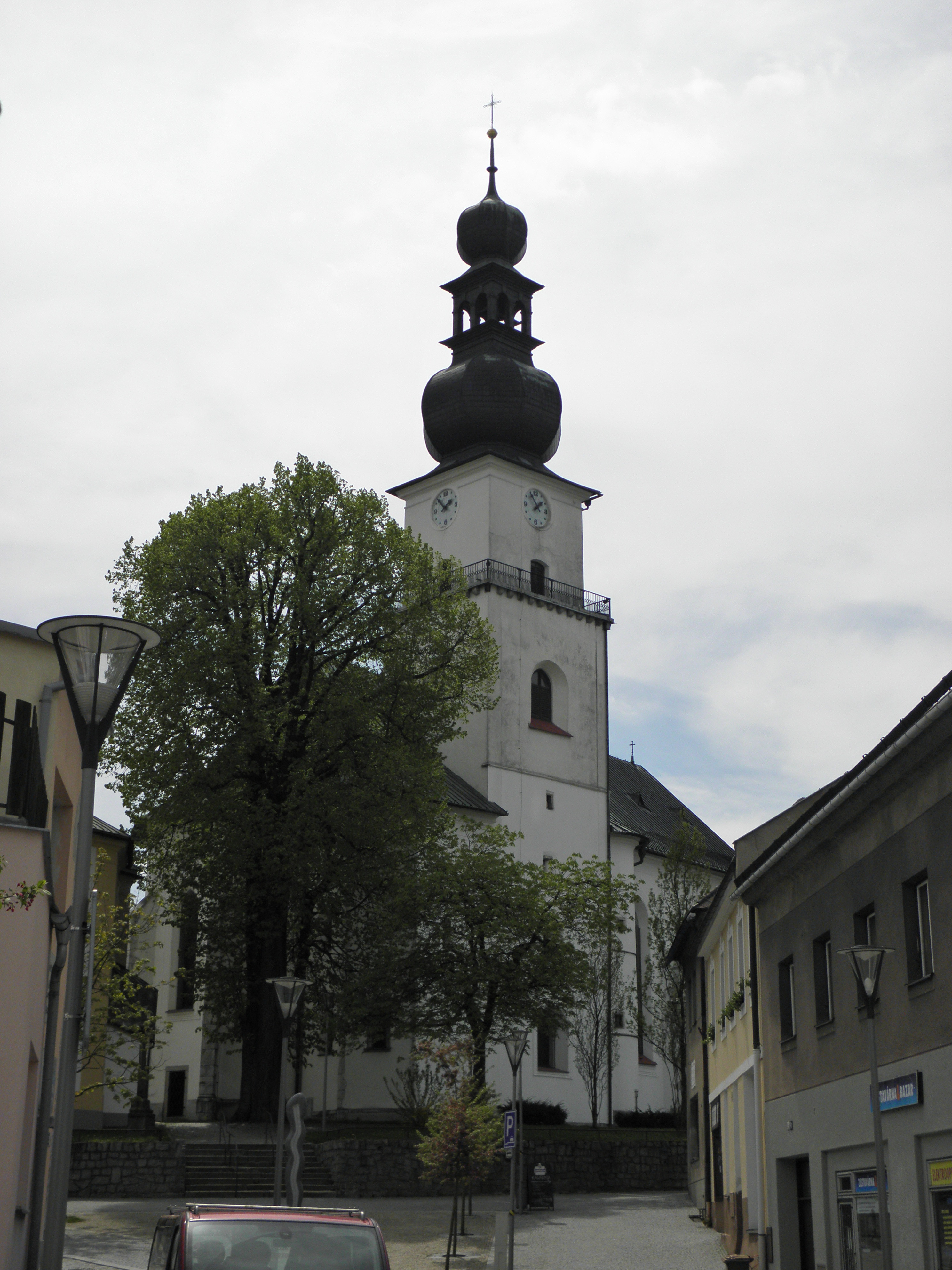 In the picture we can see eastern part of the church with tower.